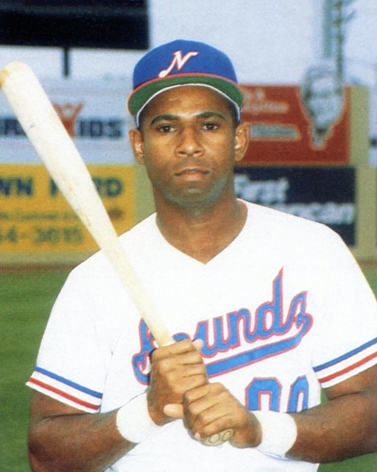 Third baseman Skeeter Barnes of the 1988 Nashville Sounds Minor League Baseball team of the American Association